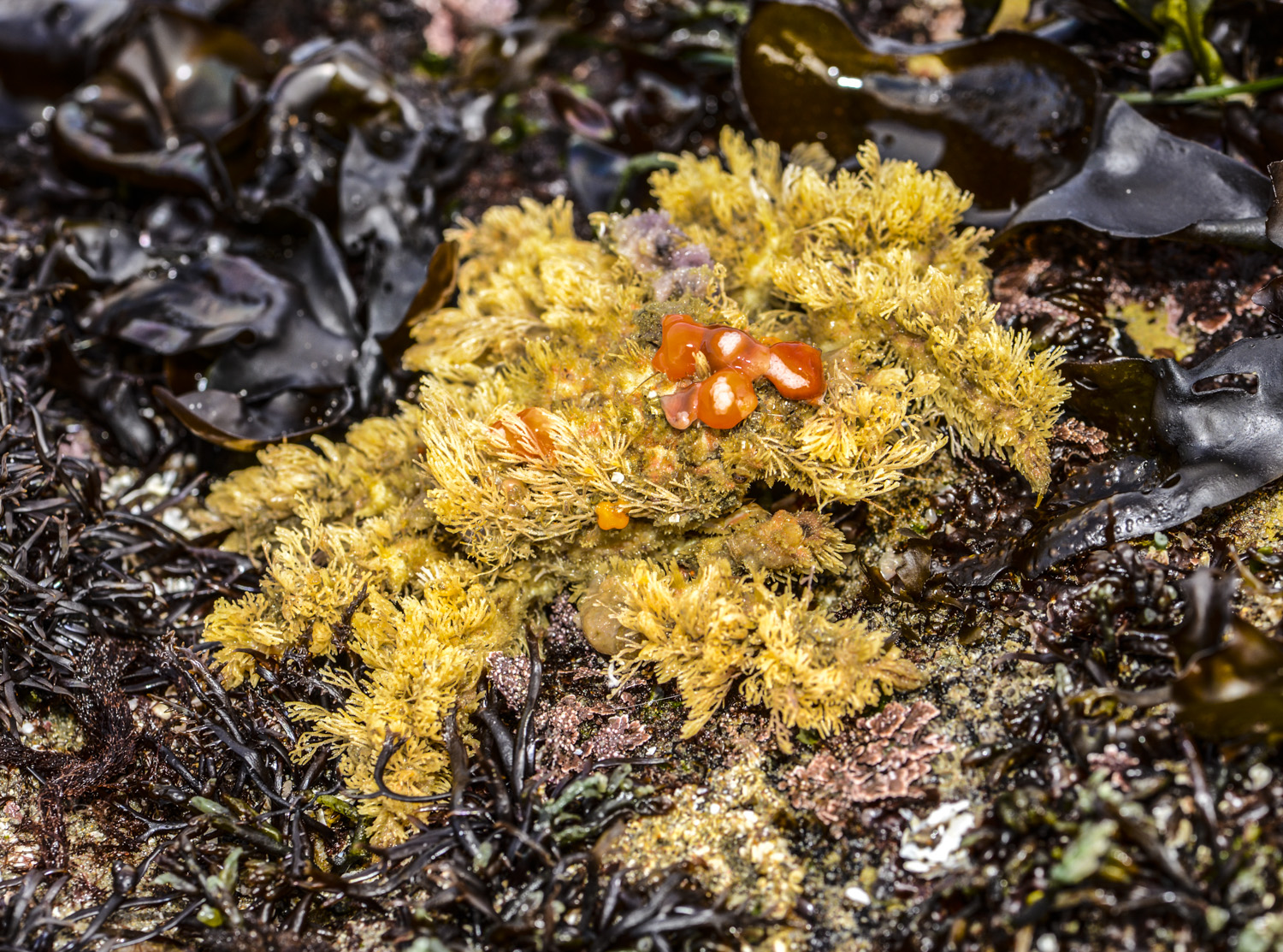 Notice the Corynactus on its dorsal surface. These small group Strawberry Anemones are not opened up because it is out of the water. Very interesting that this crab has them growing on its head region.